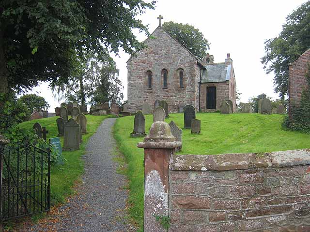 St Mary's Church, Beaumont Seen from Hadrian's Wall National Trail